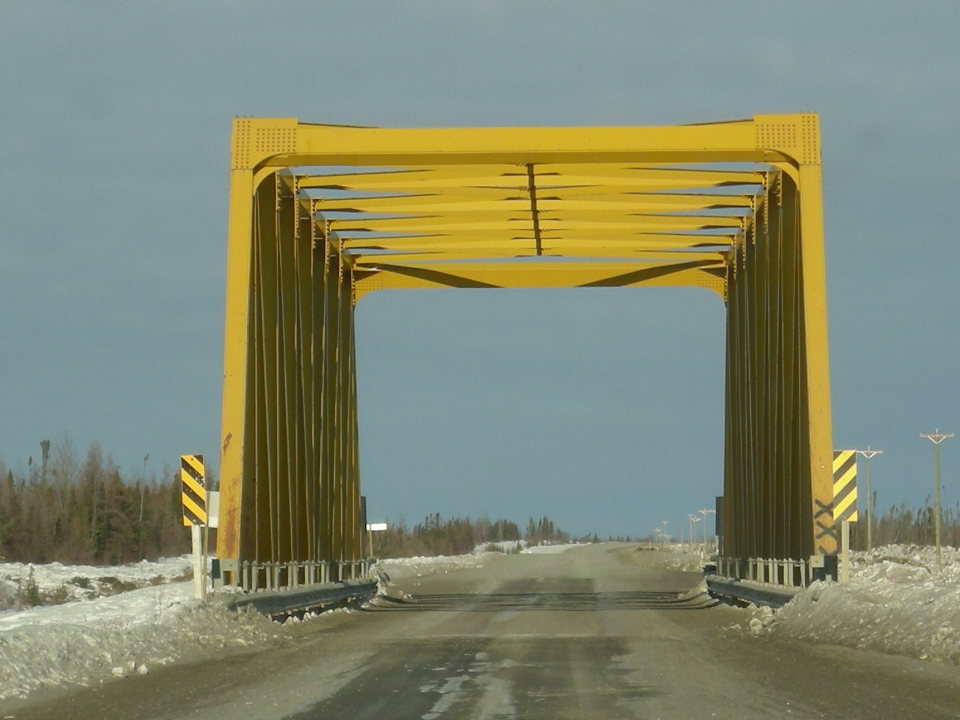 Yellow single vehicle bridge on Provincial Road 280 in Manitoba